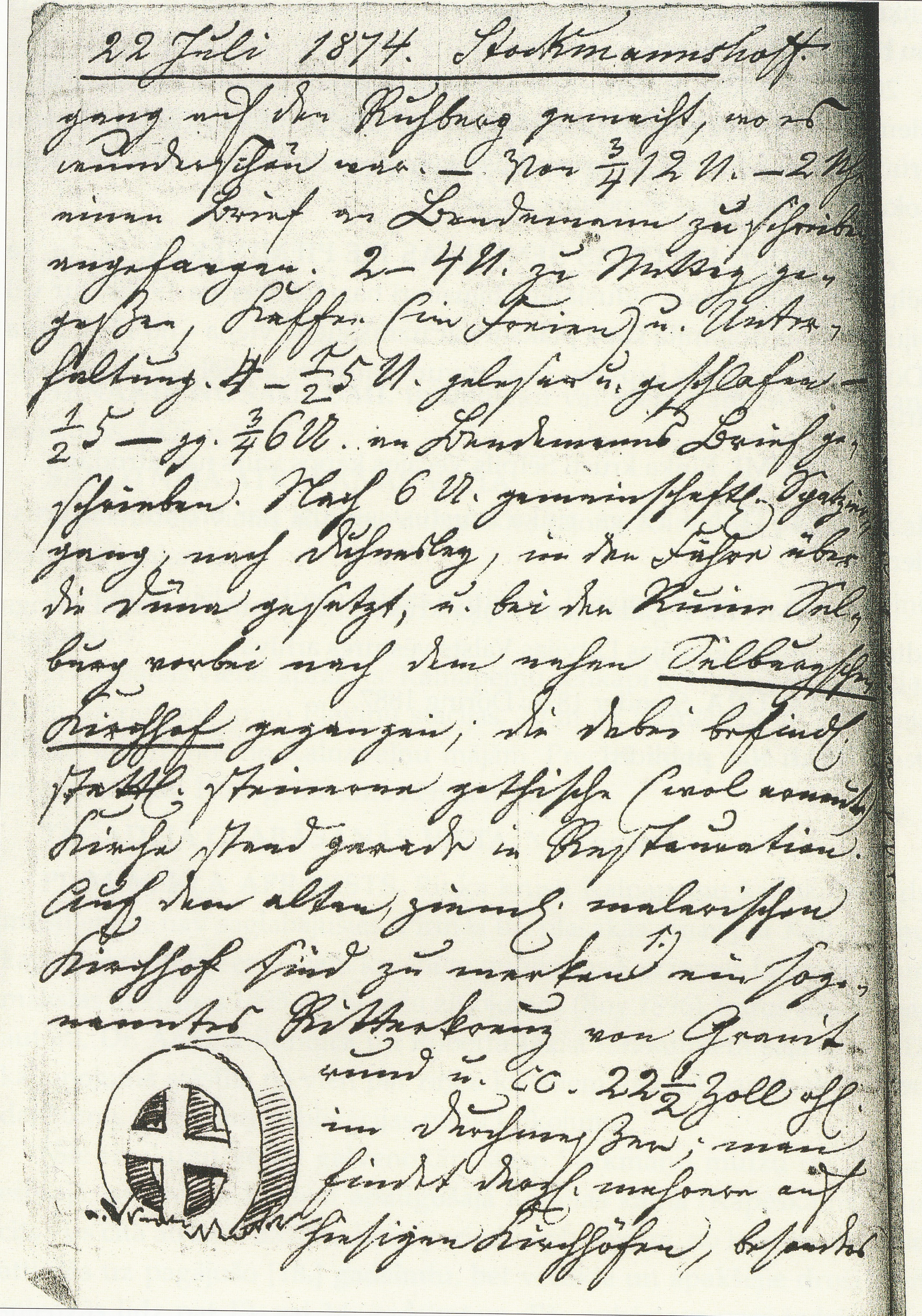 Page 155 of the diary of Julius Friedrich Döring. The page was written on the 22nd of July 1874.